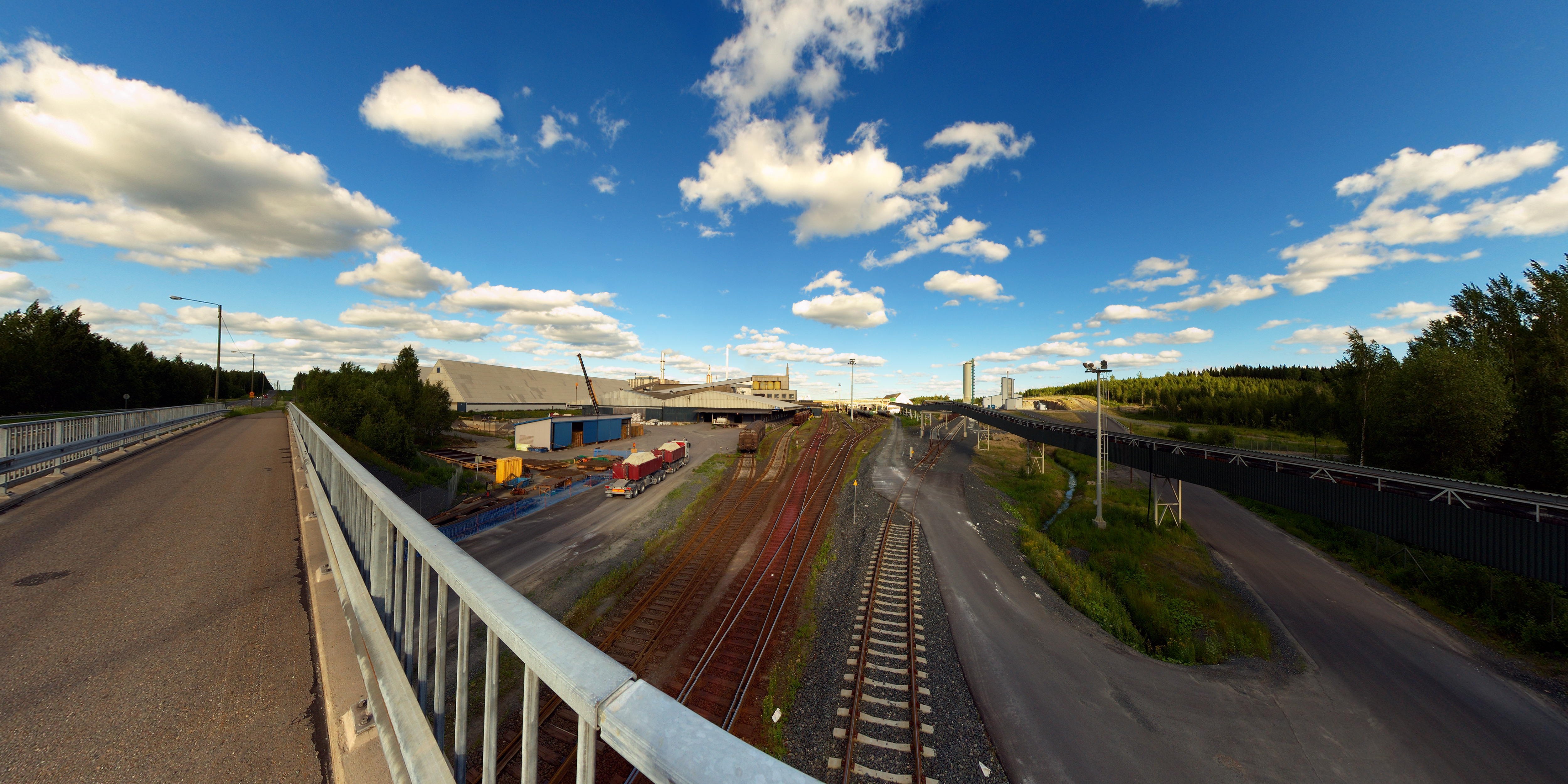 Yara factories in Siilinjärvi, Finland